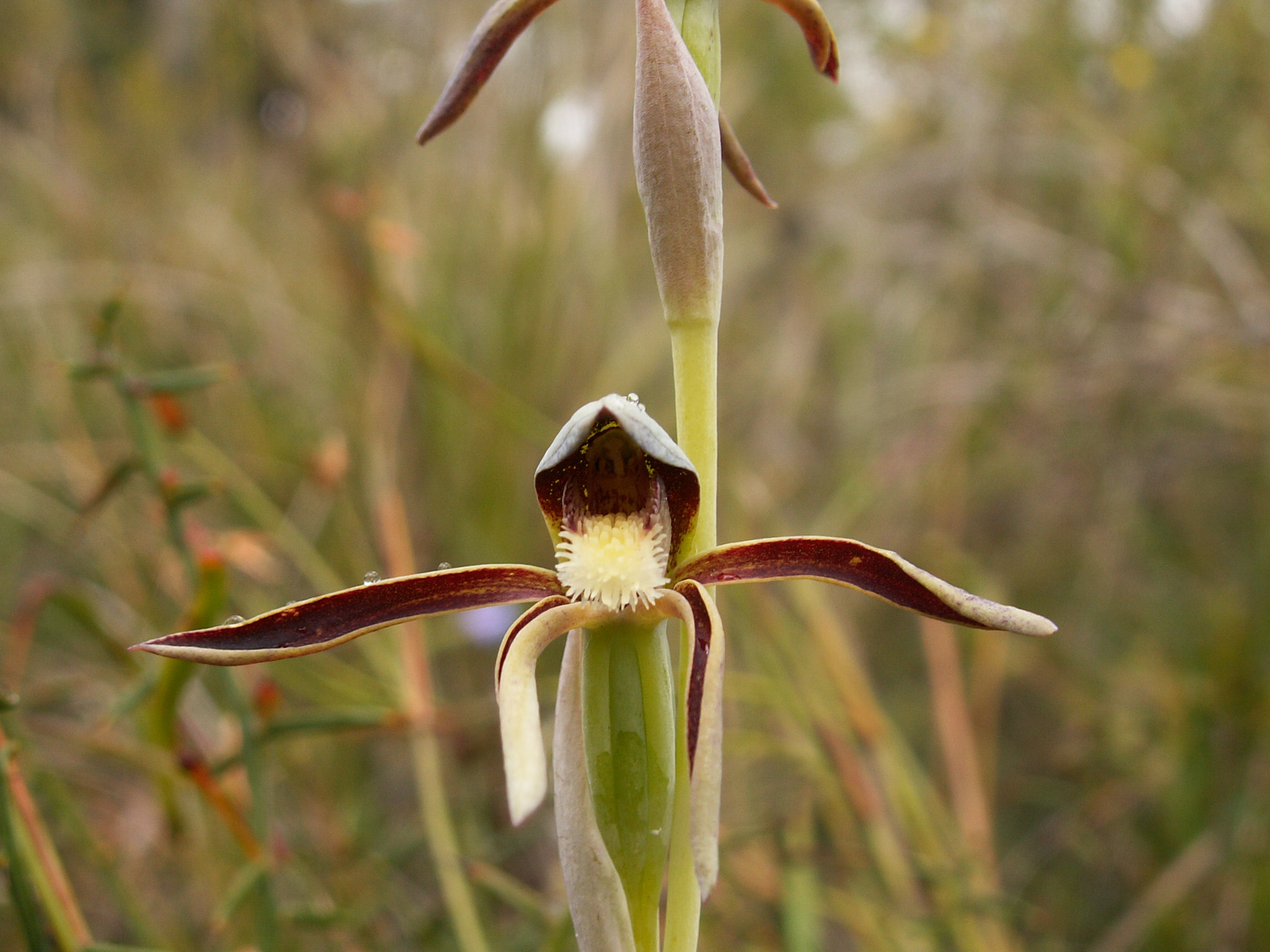 "Rattle beaks" near Albany, Western Australia